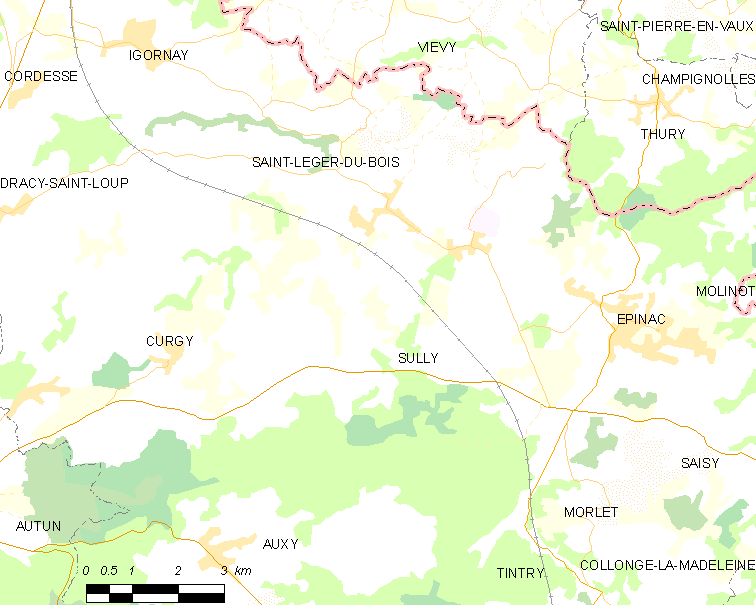 Map of French municipality